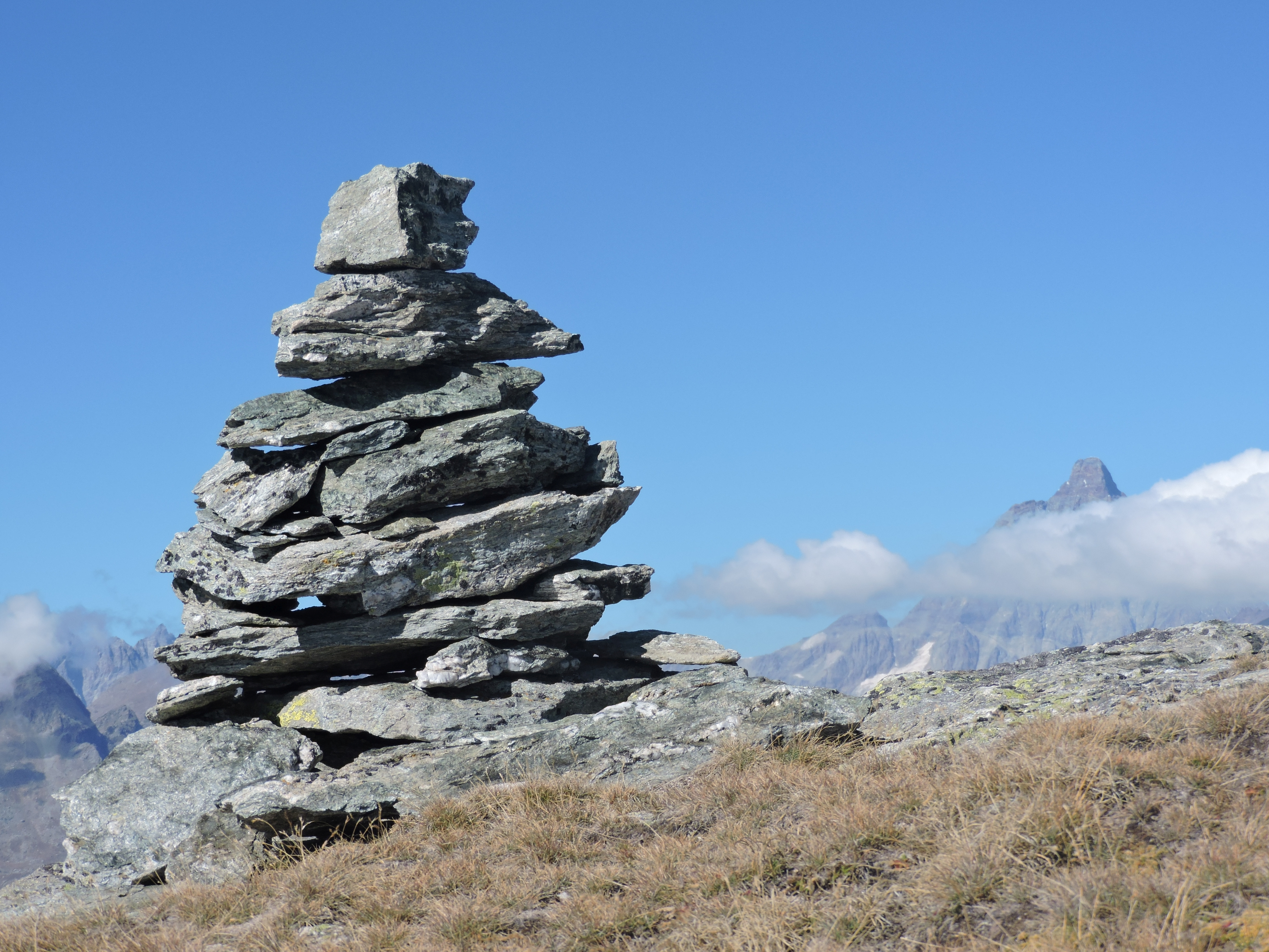 Monte Perrin (Pennine Alps, Italy): summit cairn